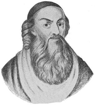 Albert Brudzewski, (in Latin, Albertus de Brudzewo; c.1445–c.1497) was a Polish astronomer, mathematician, philosopher and diplomat. Teacher of Copernicus.